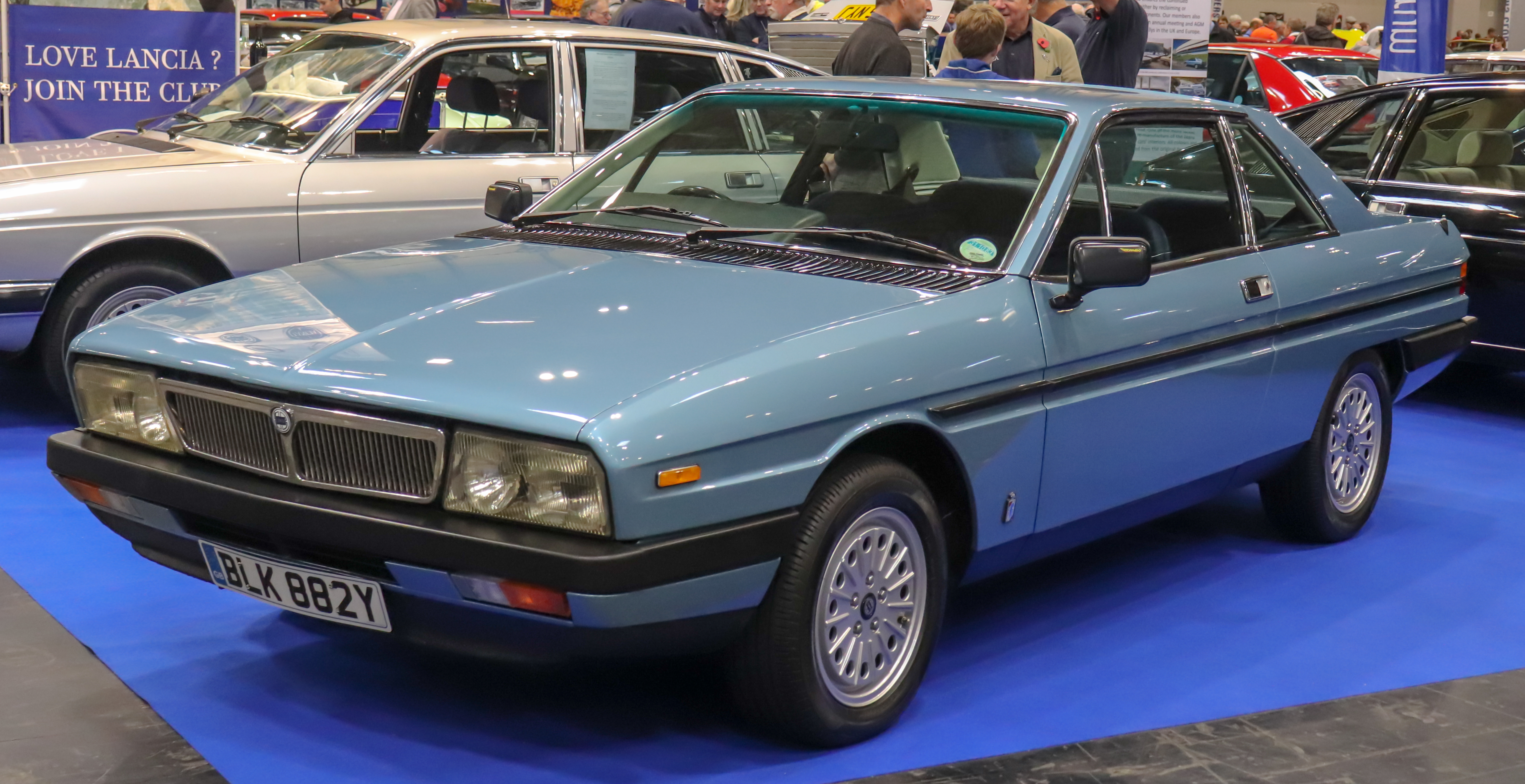 1982 Lancia Gamma Coupe Fi Automatic 2.5 Front Taken at the NEC Classic Motor Show 2018